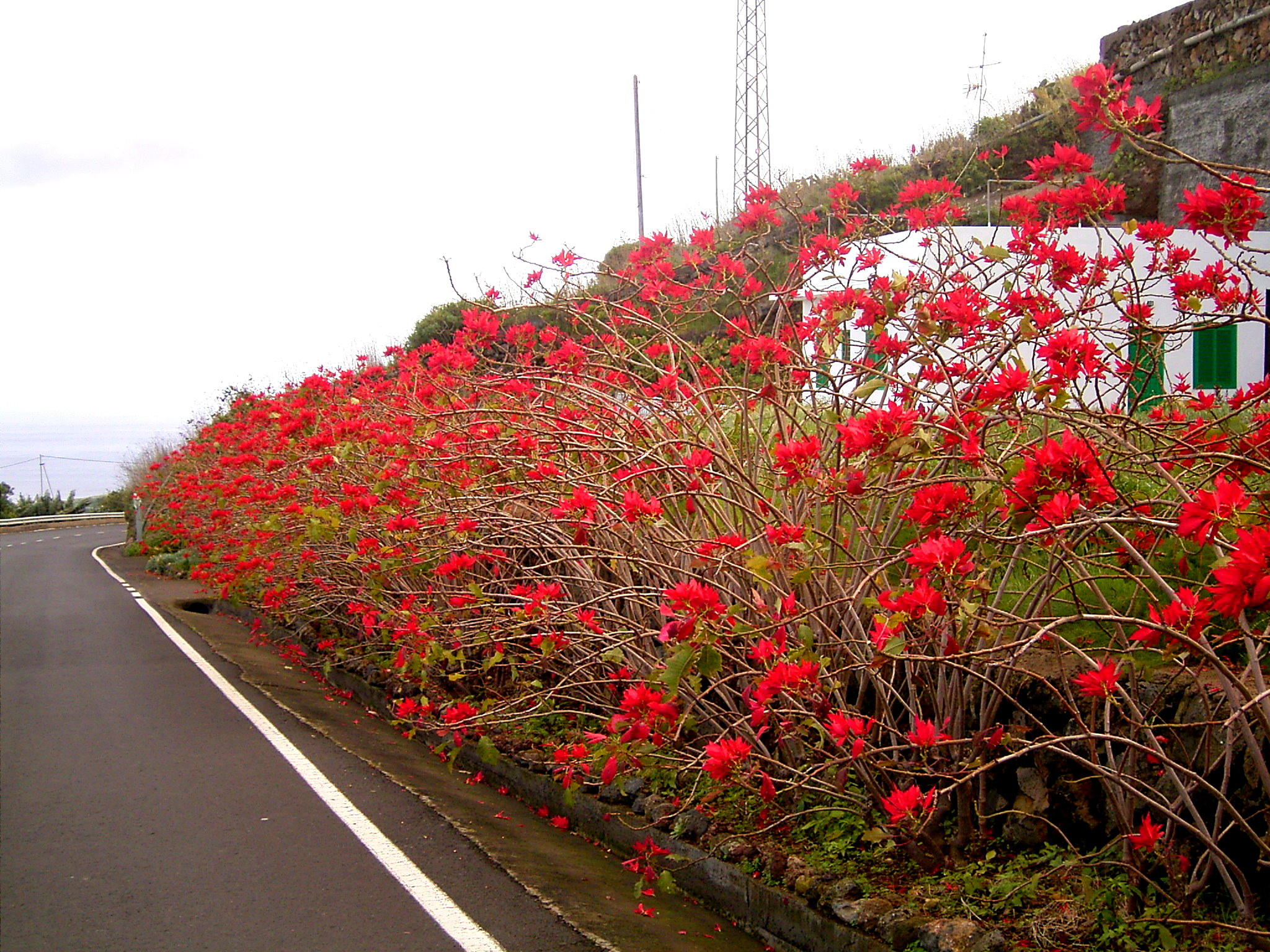 Euphorbia pulcherrima growing in Barlovento, La Palma, Canary Islands